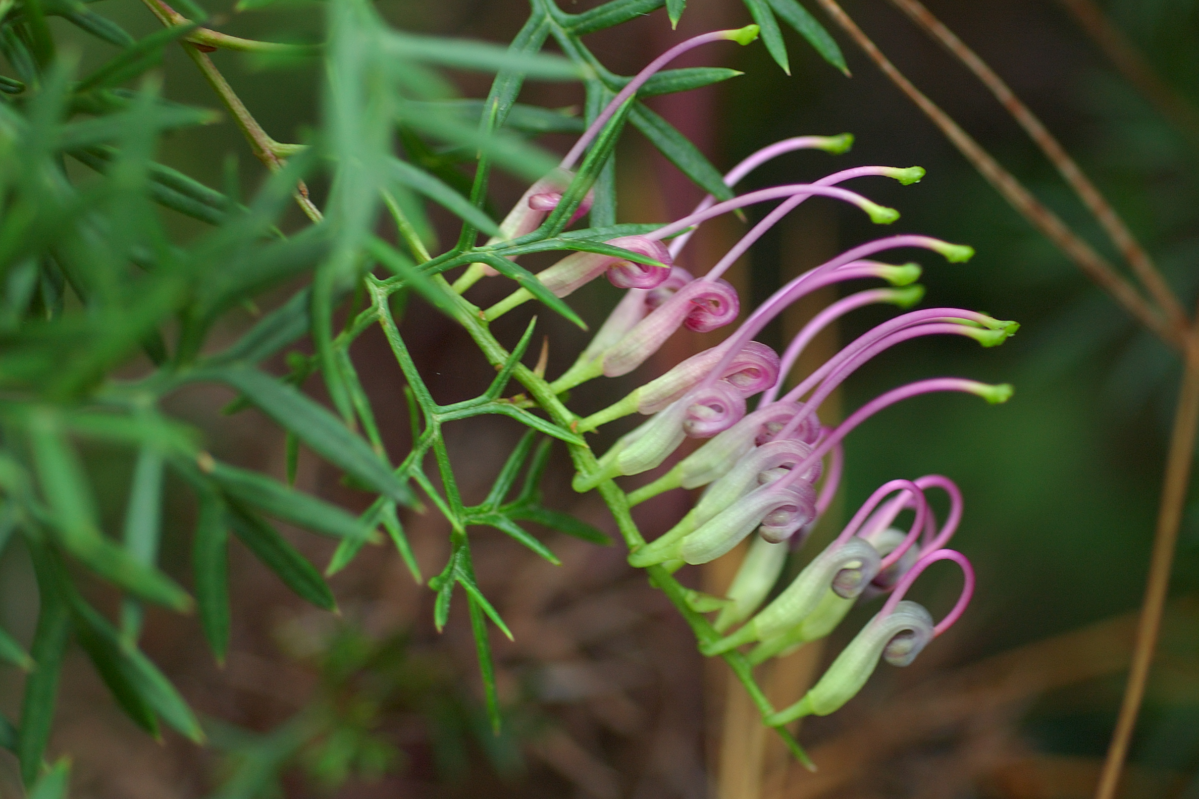 Grevillea rivularis, photographed at the San Francisco Botanical Garden at Strybing Arboretum